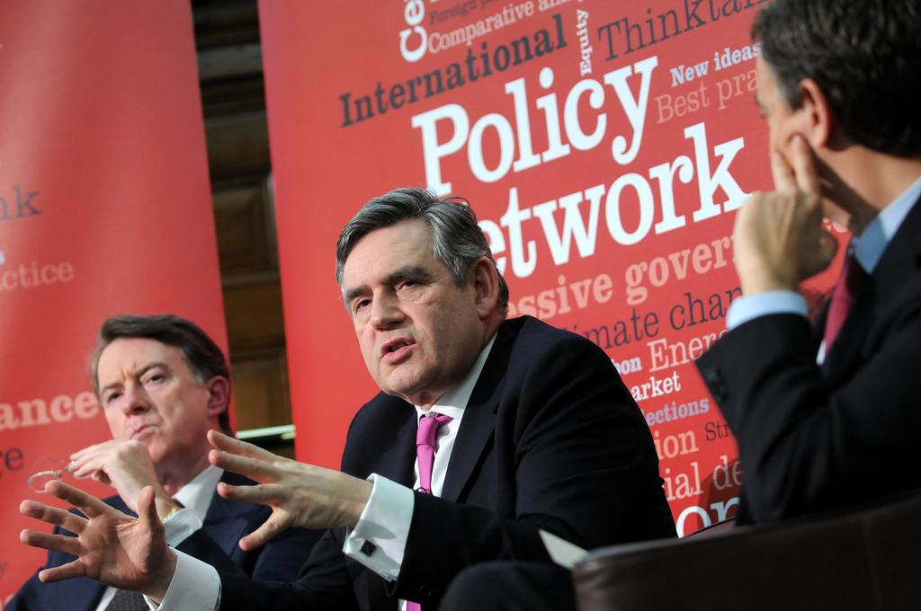 Gordon Brown and Peter Mandelson at the Progressive Governance Conference.